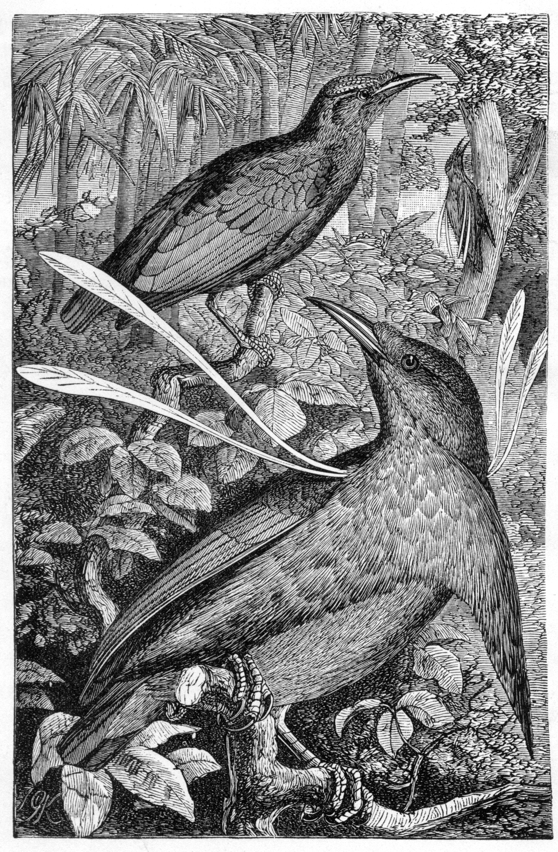 Caption reads "WALLACE'S STANDARD WING, MALE AND FEMALE". From The Malay Archipelago (1869), species is Semioptera wallacii.